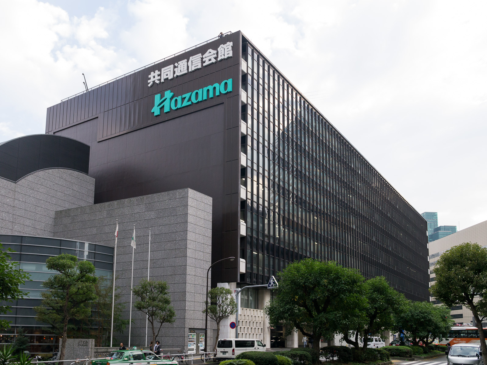 Kyodo Tsushin kaikan (formerly Kyodo News headquarters) in Minato Ward, Tokyo, Japan